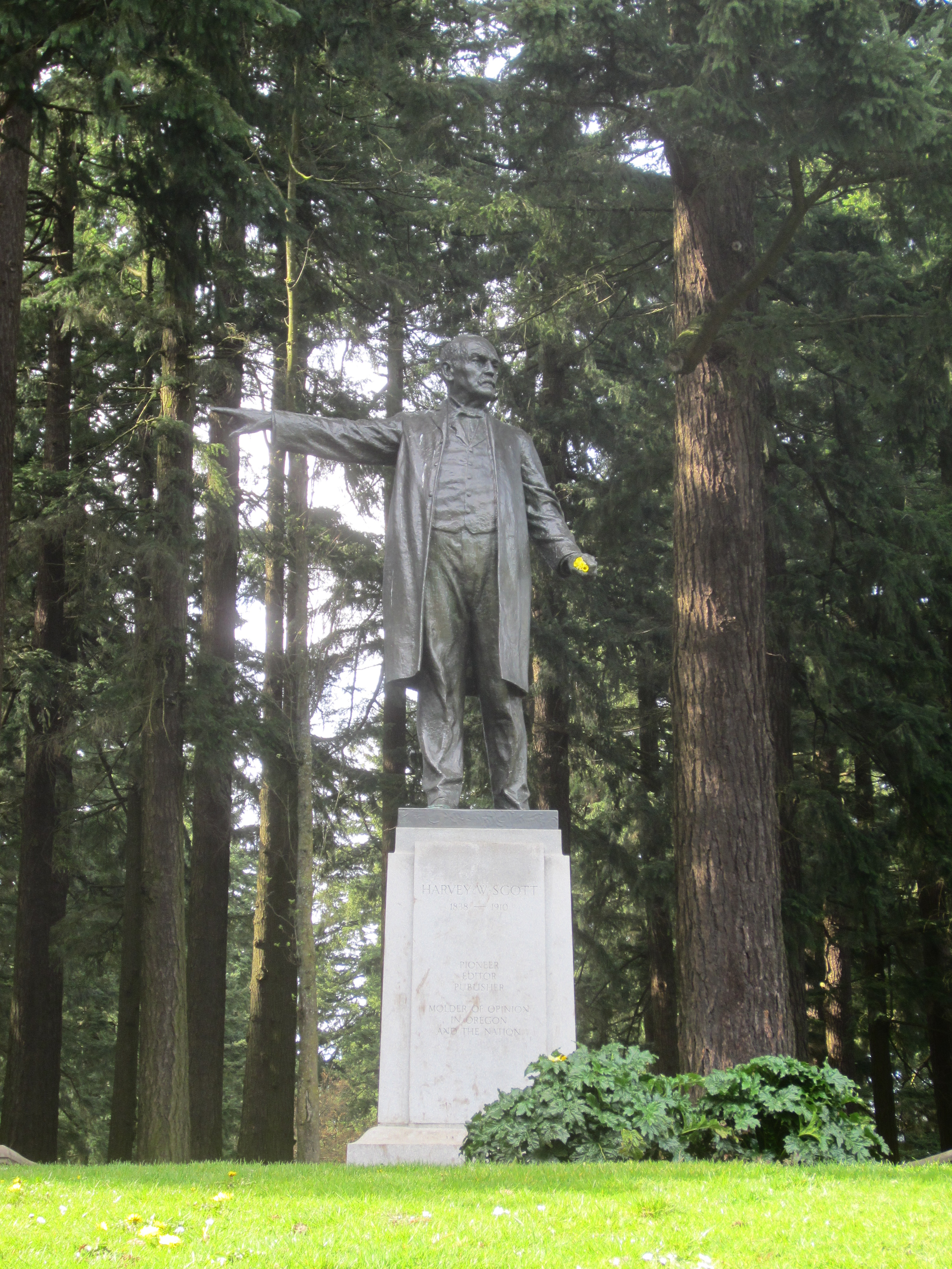 Mount Tabor Park, Portland, Oregon (2012)